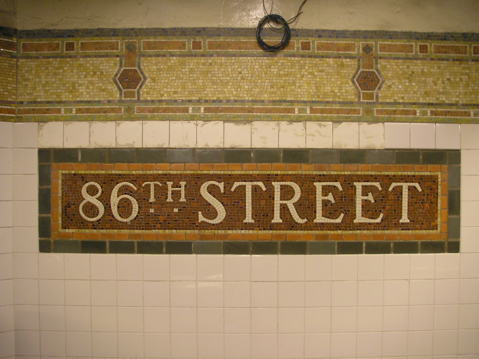 Mosaic sign on 86th Street subway station in New York City.